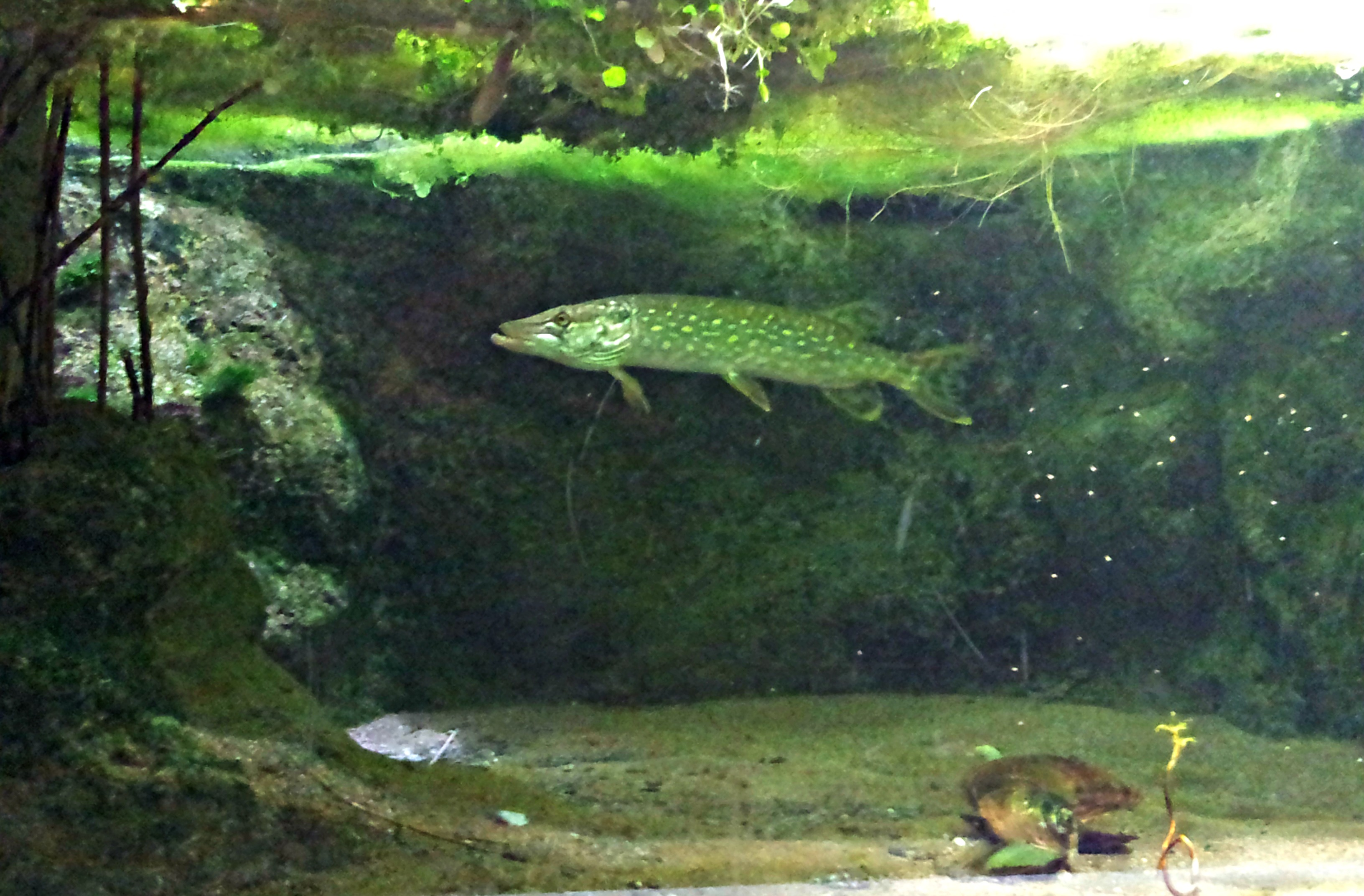 Northern pike - Civic Aquarium of Milan